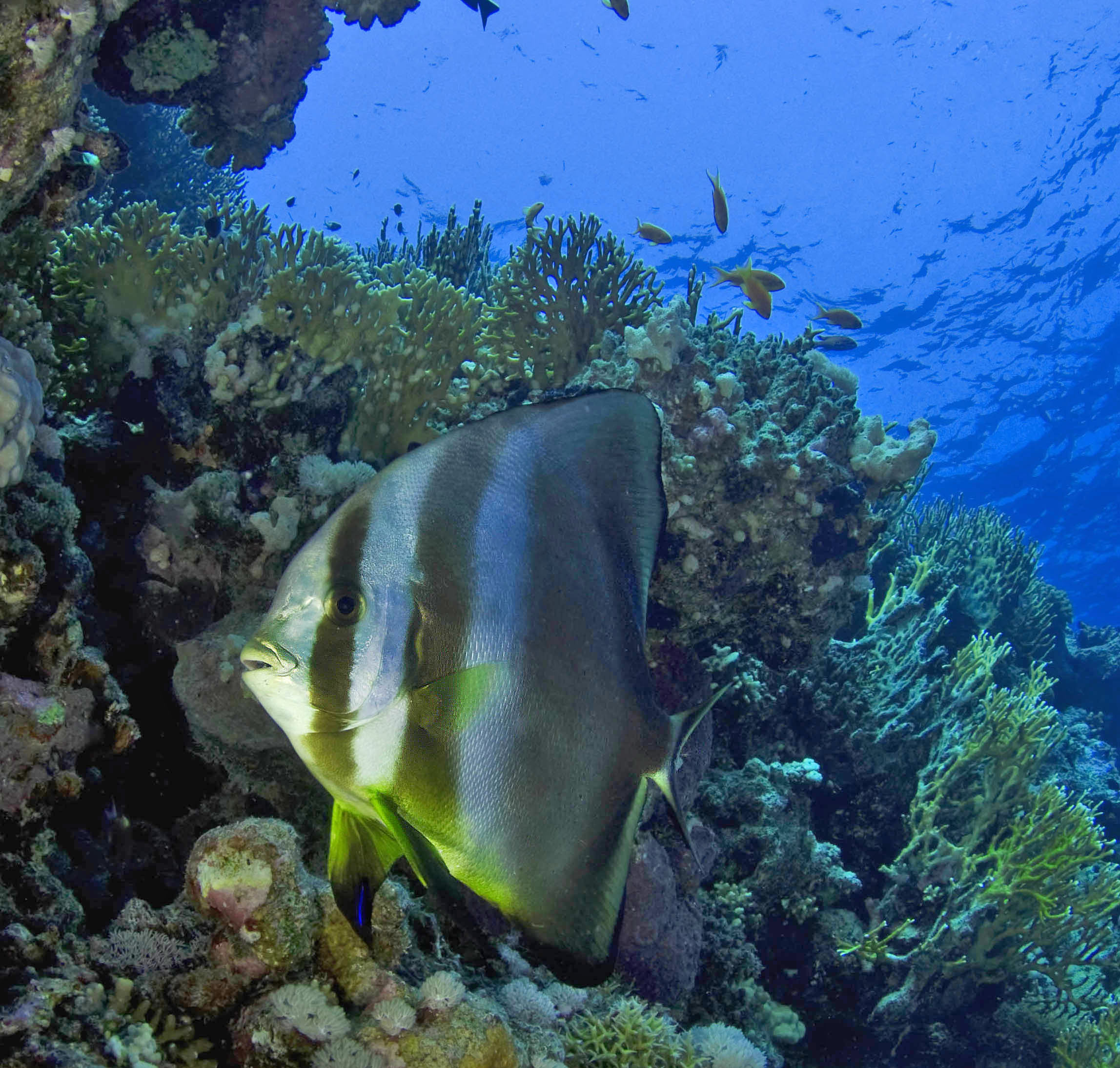 Platax orbicularis. Red Sea.